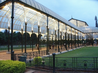 File from Wikitravel Bangalore